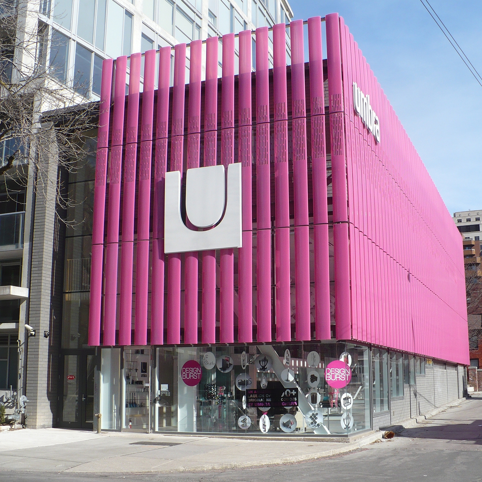 Umbra Concept Store in downtown Toronto